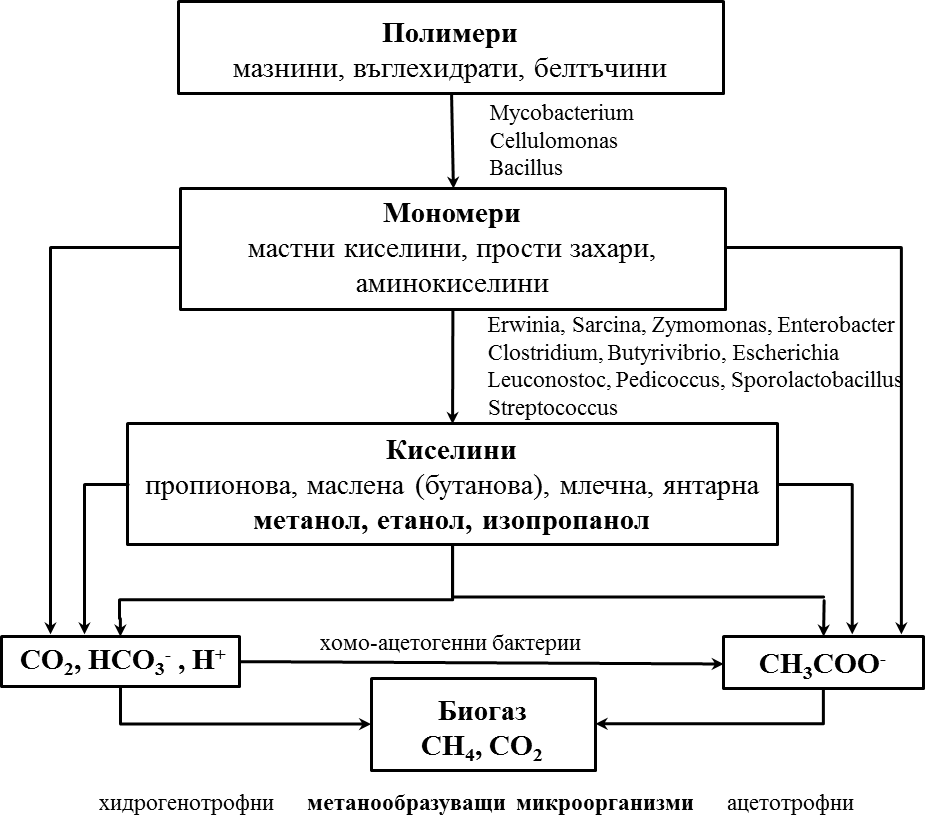 biogas_4_stages